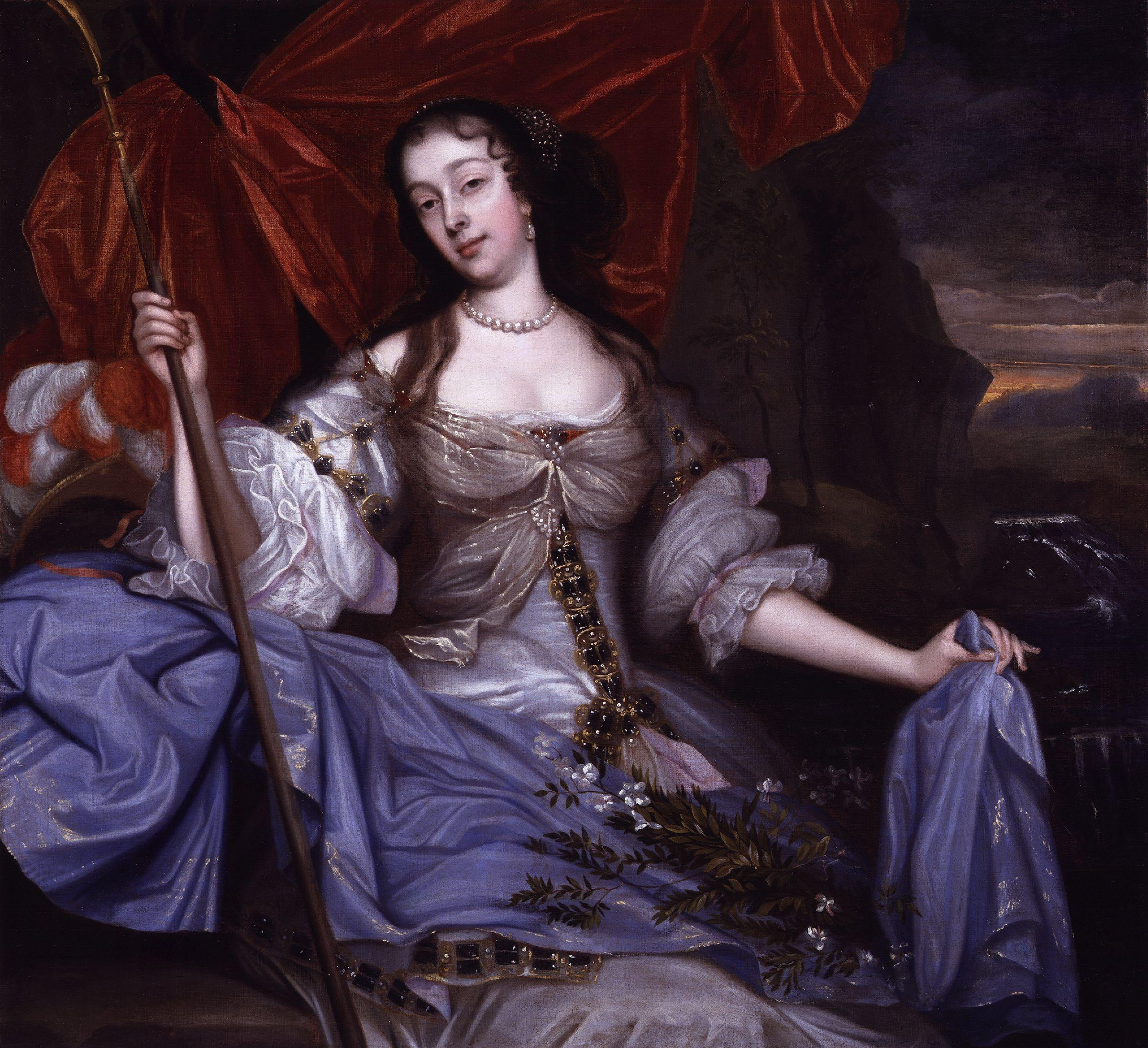 Barbara Palmer (née Villiers), Duchess of Cleveland, by John Michael Wright (died 1694). All images in this batch have been confirmed as author died before 1939 according to the official death date listed by the NPG.